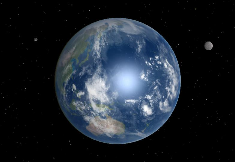 Artist's conception of Earth with two moons, generated in Celestia with addon from Eugene Stauffer (GPLv3)